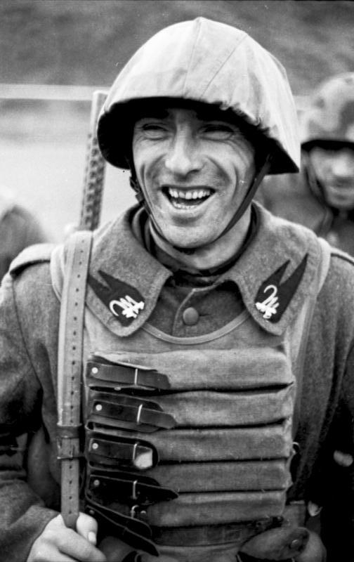 Information added by Wikimedia users.*